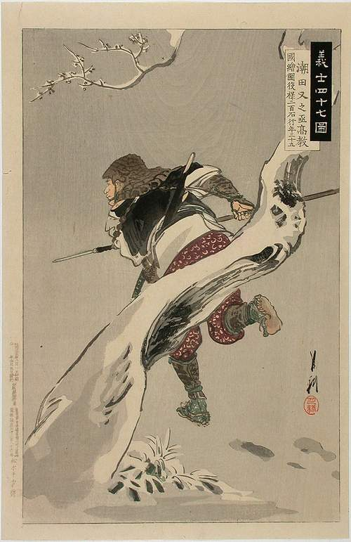 Ronin are masterless samurai. Chushingura is the true story of 47 samurai who became masterless in 1701, after their lord had been forced to commit ritual suicide (seppuku) for assaulting a court official who had insulted him. They avenged him by killing the court official after patiently planning for over a year. They were themselves then forced to commit seppuku.